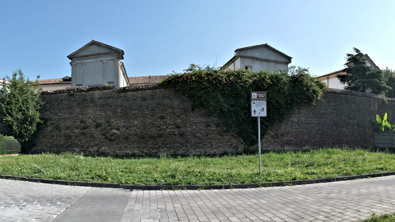 Old hospital in Crema (Italy)